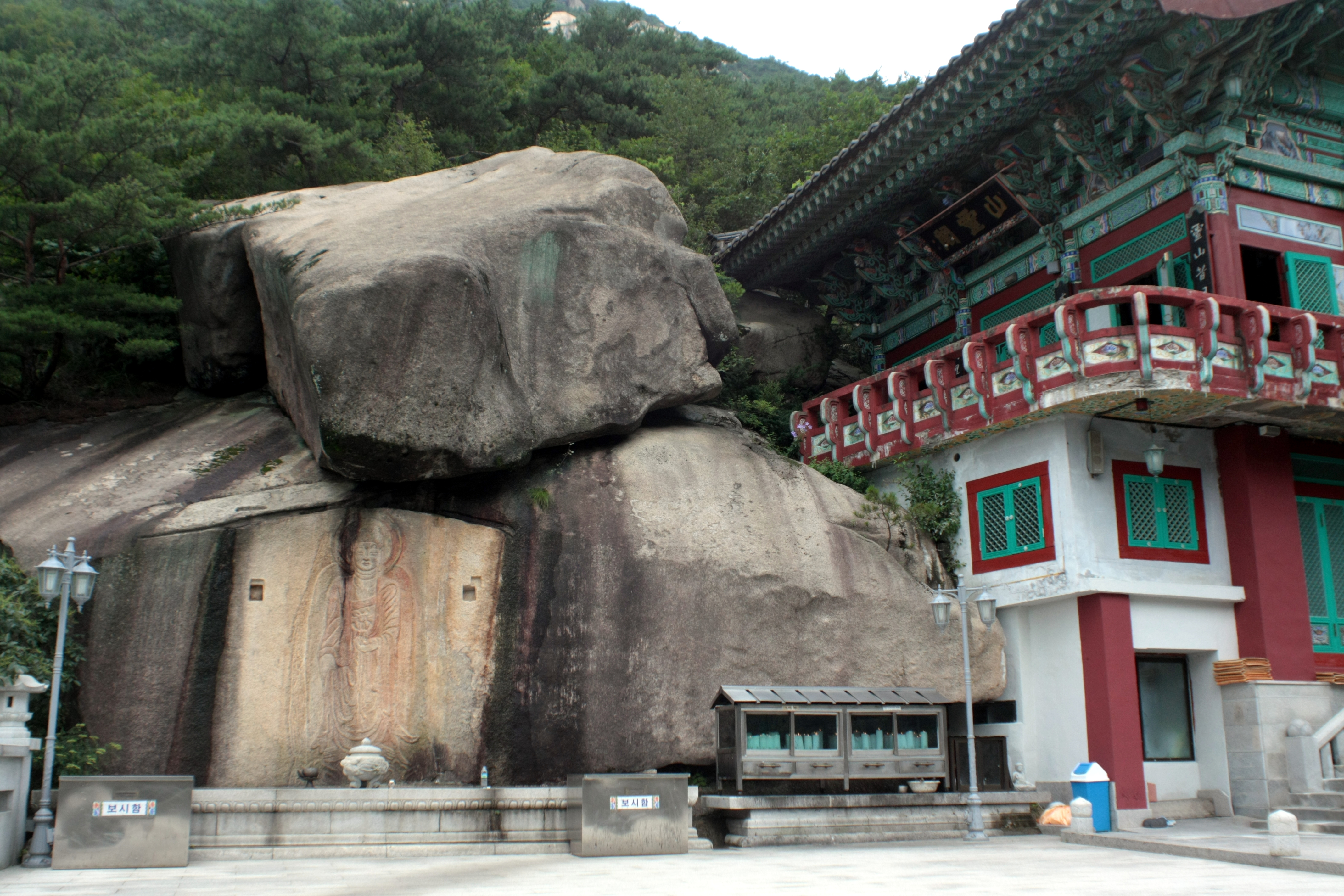 Standing Buddha Carved on the Rock in Samcheonsa temple site, Seoul